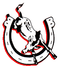 Bedford Kicking Mule